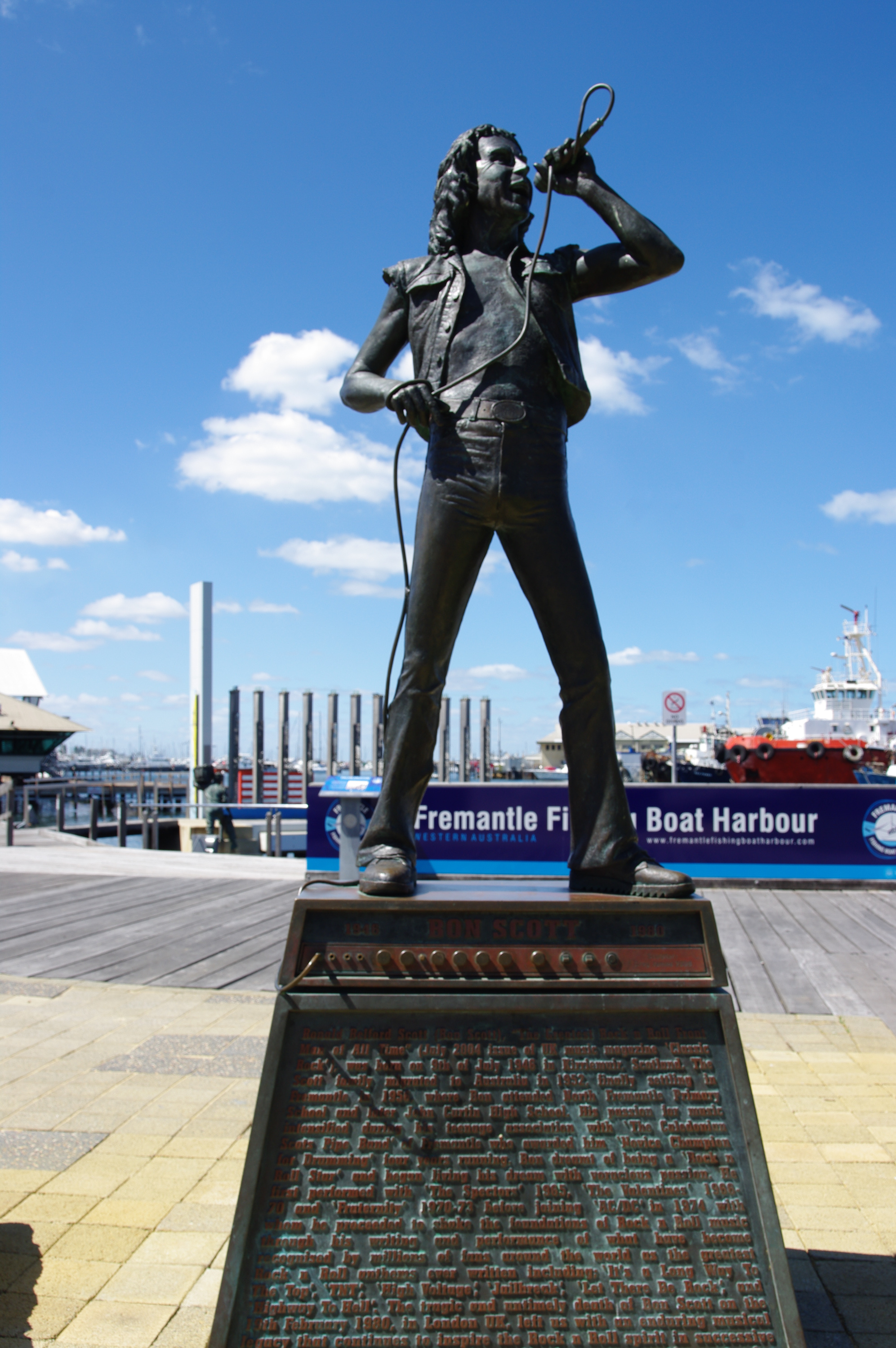 Wiki takes Fremantle 2 statue of Bon Scott by Greg James